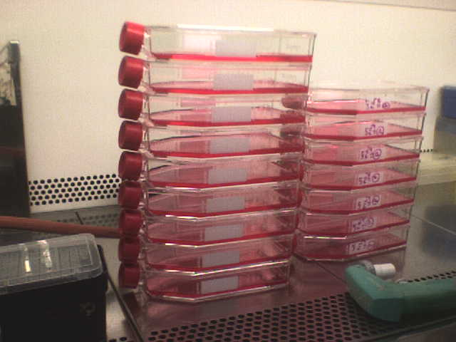 (the red liquid is not blood but the cell culture medium)